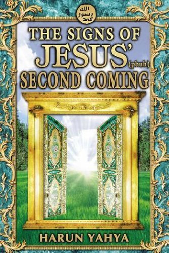 Cover of the book "The Signs of Jesus' Second Coming", by Harun Yahya.